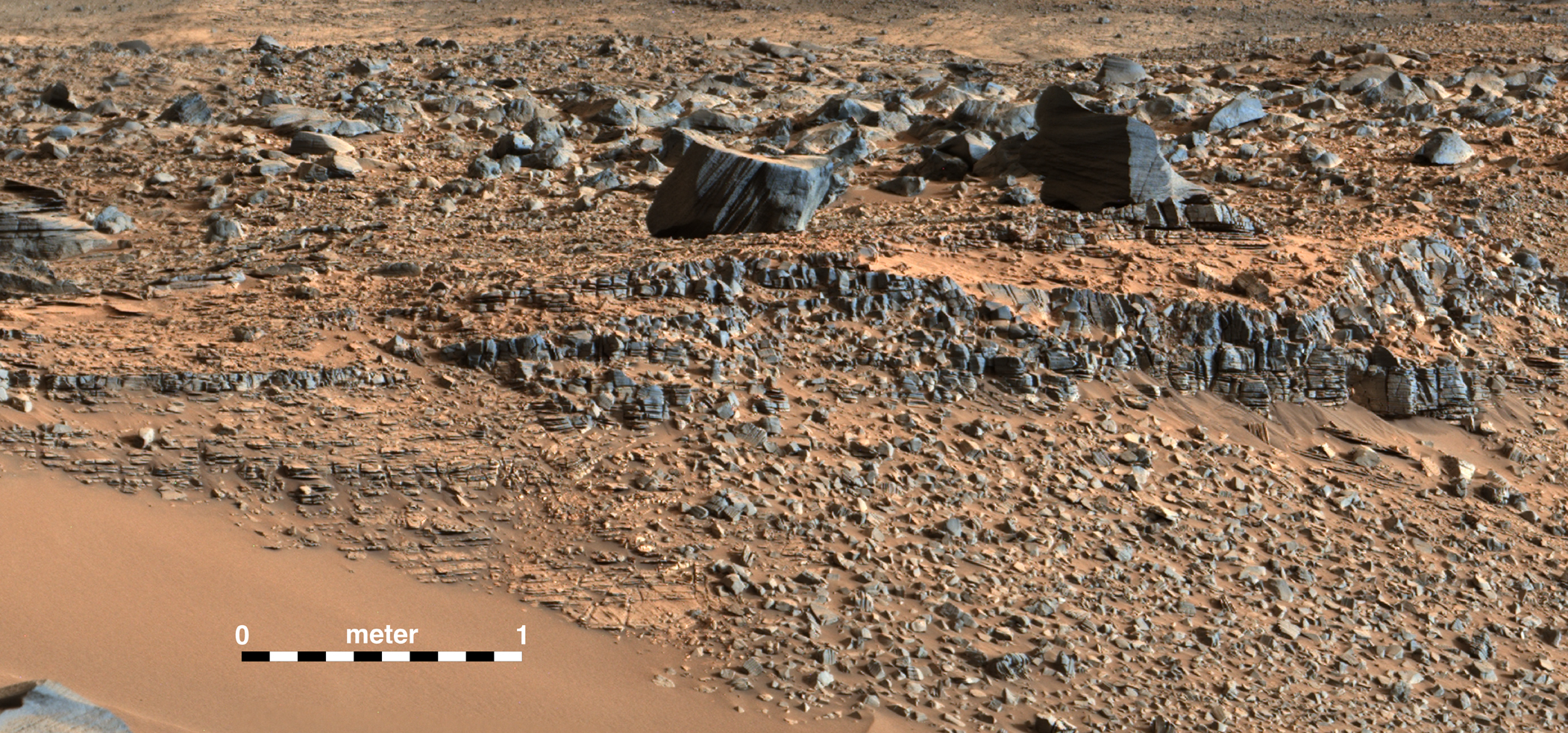 09.11.2014 Martian Layers Thicker on Top This portion of a color mosaic taken by NASA's Mars Curiosity rover shows strata exposed along the margins of the valleys in the "Pahrump Hills" region on Mars. The scale of layering increases upward, providing what's called a "thickening upward" trend. This is consistent with a variety of ancient environments, in particular those that involved water. This image was taken by the rover's Mast Camera (Mastcam). It has been white-balanced to show how the scene would appear under Earth's lighting conditions. NASA's Jet Propulsion Laboratory, a division of the California Institute of Technology, Pasadena, manages the Mars Science Laboratory Project for NASA's Science Mission Directorate, Washington. JPL designed and built the project's Curiosity rover. Malin Space Science Systems, San Diego, built and operates the rover's Mastcam. More information about Curiosity is online at and